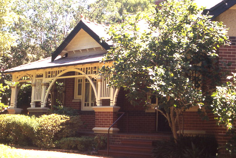 'Aventine' 12 Appian Way, Burwood, Sydney